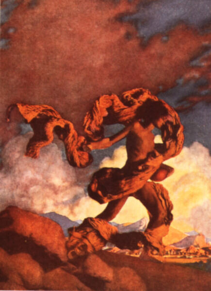 Cadmus Sowing the Dragon's Teeth. Illustration for A Wonder Book and Tanglewood Tales by Nathaniel Hawthorne, pub. 1910.